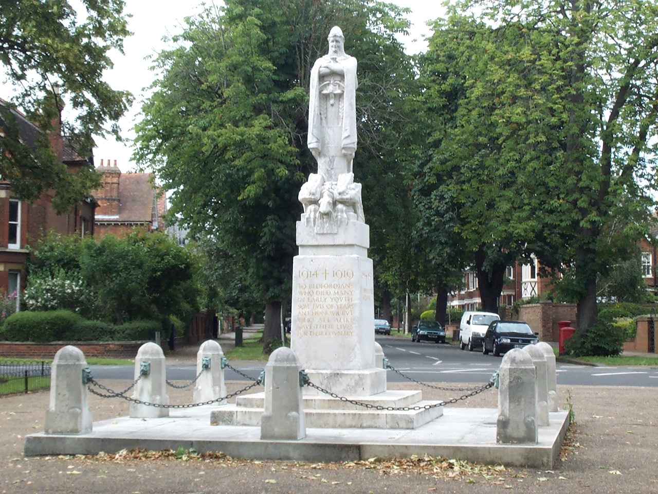 War Memorial in Bedford, Bedfordshire, England commemorating the town's dead in 20th century conflicts. WW1, WW2 and the Korean War are explicitly mentioned. There is another memorial for the Boer War. The sculptor was Charles Sargeant Jagger. It stands on the embankment opposite the entrance to Rothsay Road.